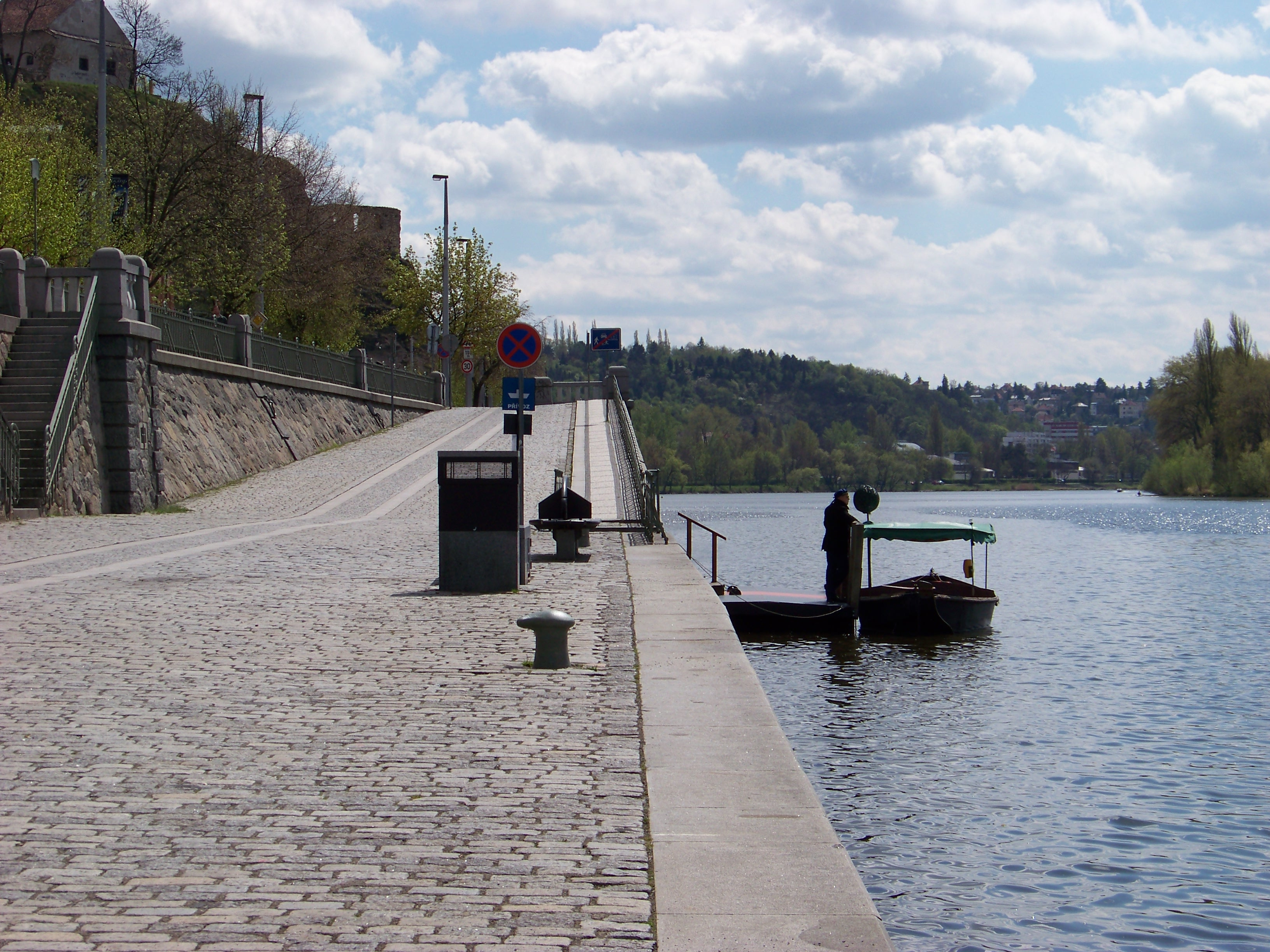 Prague-Vyšehrad, the Czech Republic. Vltava river, Rašínovo nábřeží, ferry P5, Rákosníček boat.